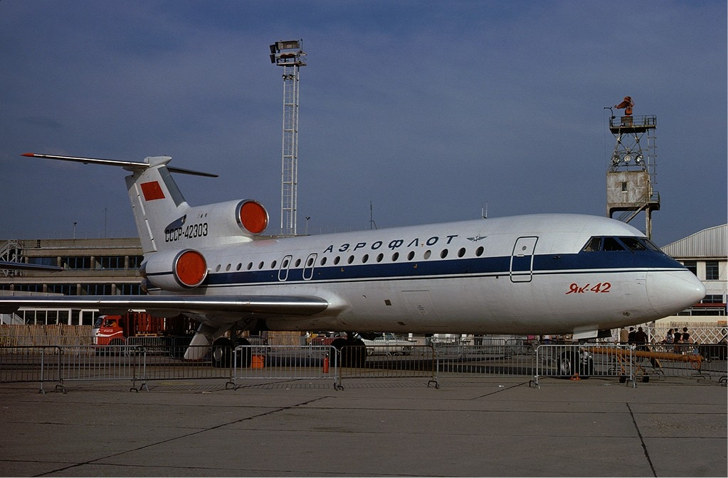 A Yakovlev Yak-42 of Aeroflot at Le Bourget